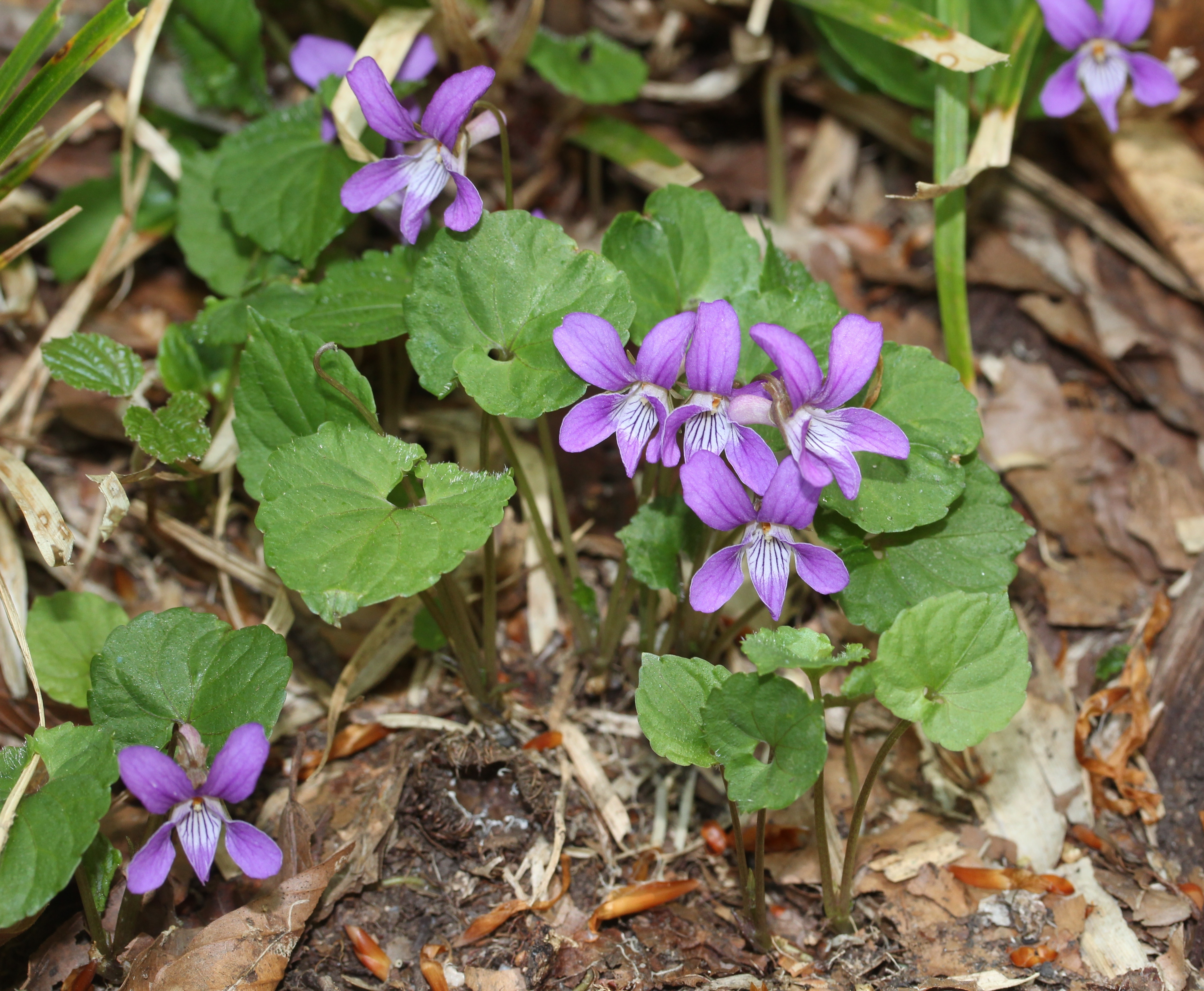 Viola selkirkii in Mount Mouminuka, Hida, Gifu prefecture, Japan.